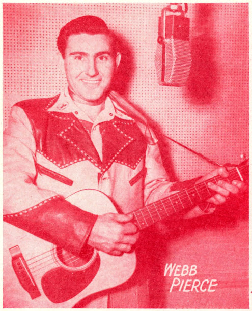 Webb Pierce, from the 1955 sheet music to "I Don't Care"